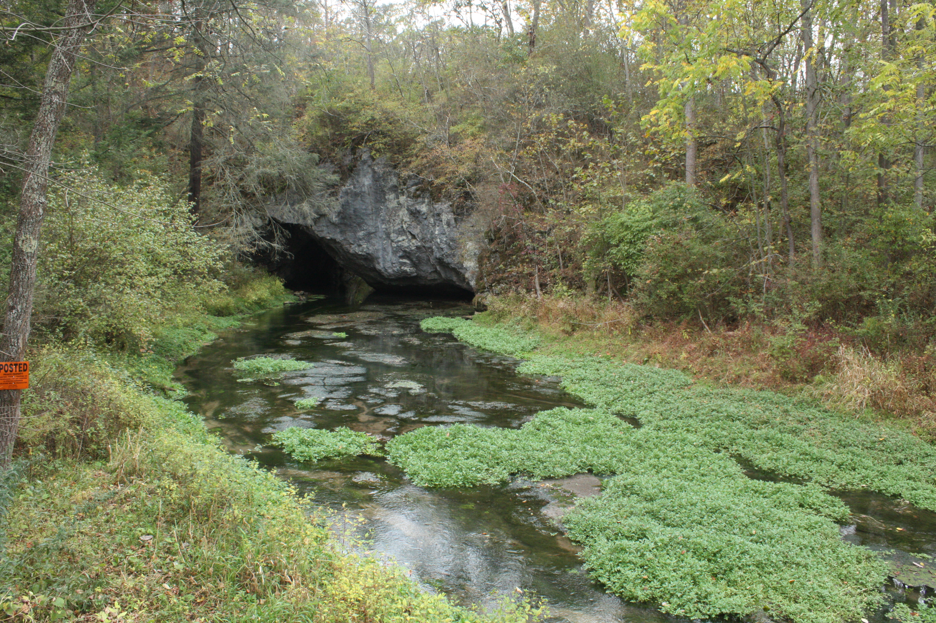 Arch Spring and Sinking Run, Tyrone Township, Blair County, Pennsylvania. Facing roughly west from Kettle Road.